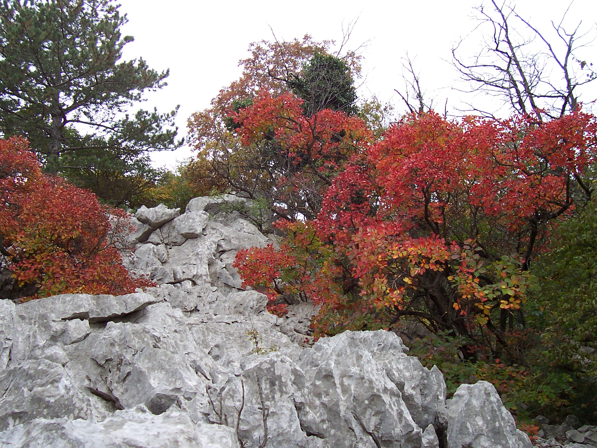 Il Carso a Duino Source photographed by myself Photographer Pier Luigi Mora Date 2005-10-31 Camera Data Camera Kodak CX6330 zoom digital camera